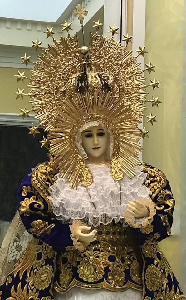 Image of the Immaculate Virgin of Banate in Iloilo (Philippines), used during the procession and Mass for the Solemnity of the Blessed Virgin.